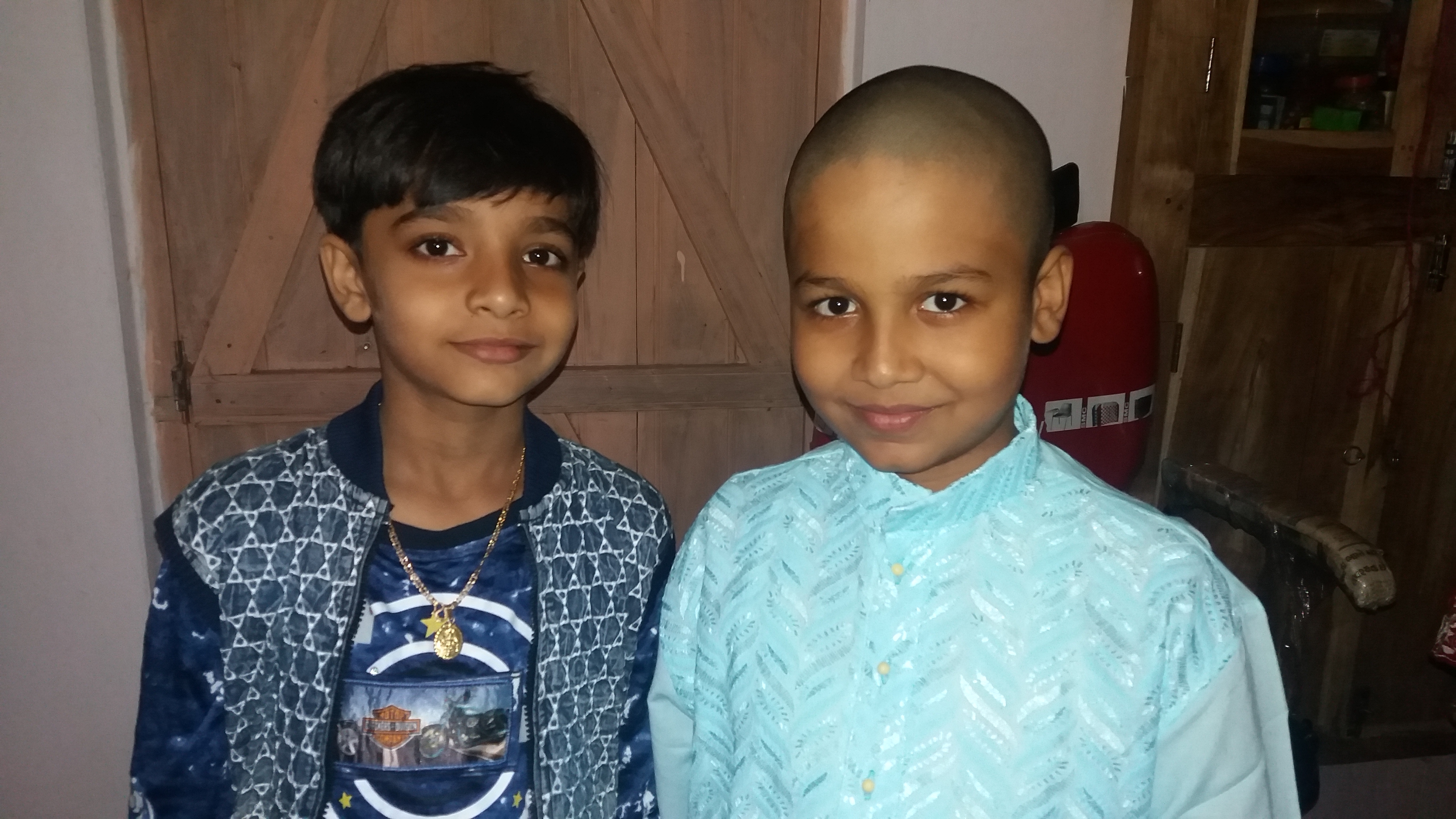 Drummer Anshuman Nandi (left) with Singer Rajpreet Chakraborty (right).